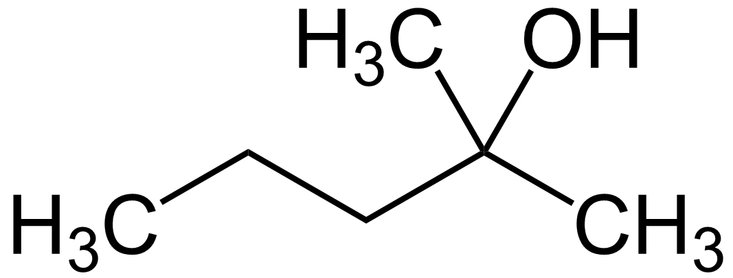 A structural drawing of a hexanol isomer.